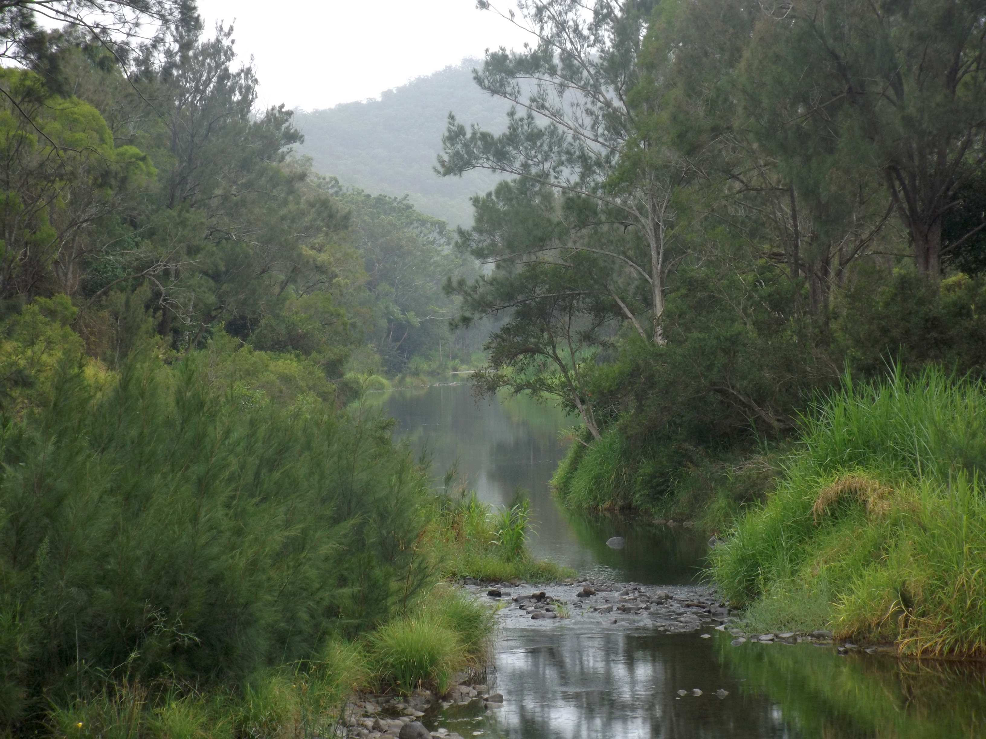 Photo of Coomera River at Clagiraba, Gold Coast City, Queensland, Australia. View is looking north east (downstream) from the Clagiraba Road crossing.